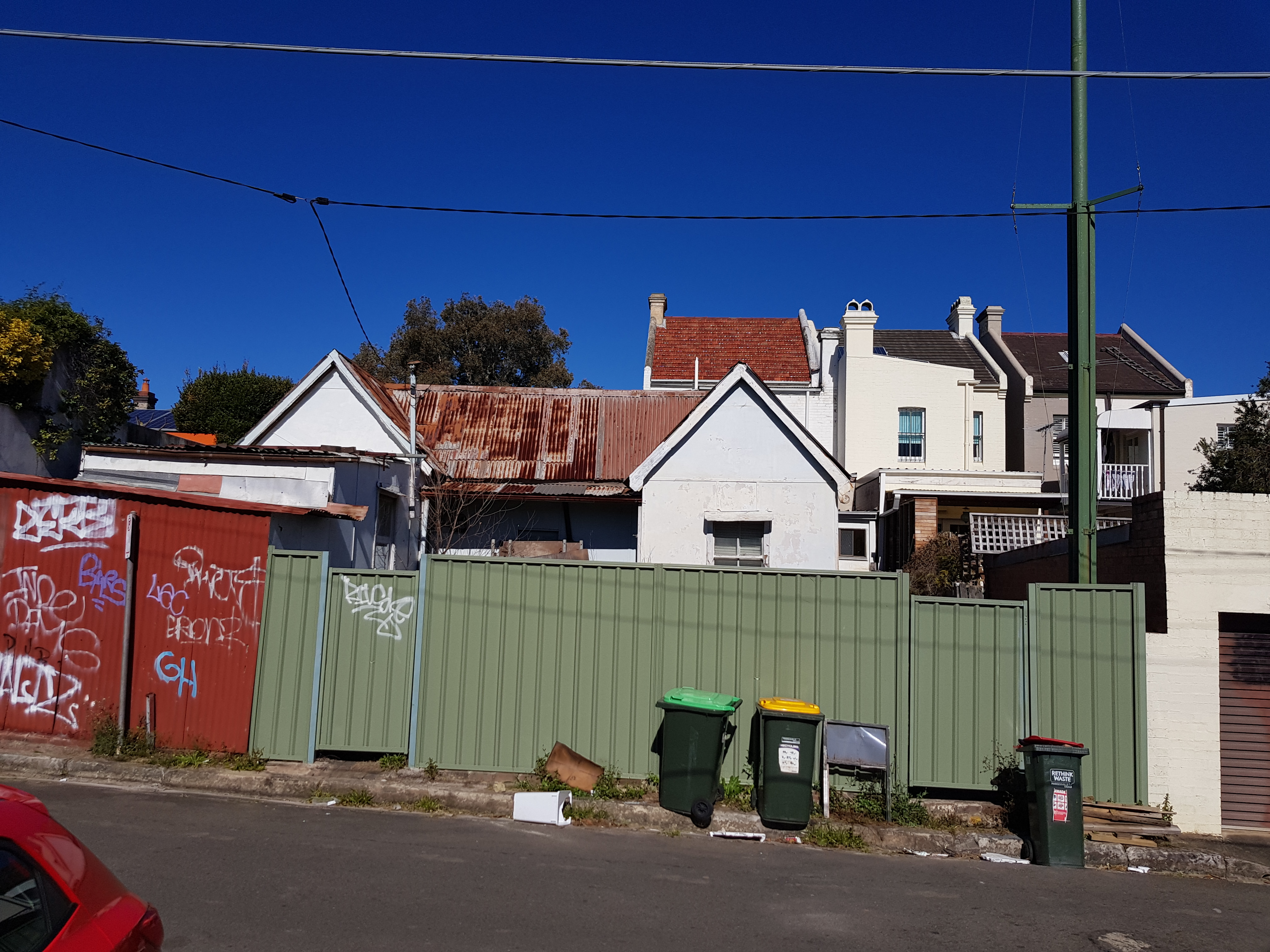 The gatehouse, last surviving building of Annandale Farm. Now in rear of private residence, Stanmore